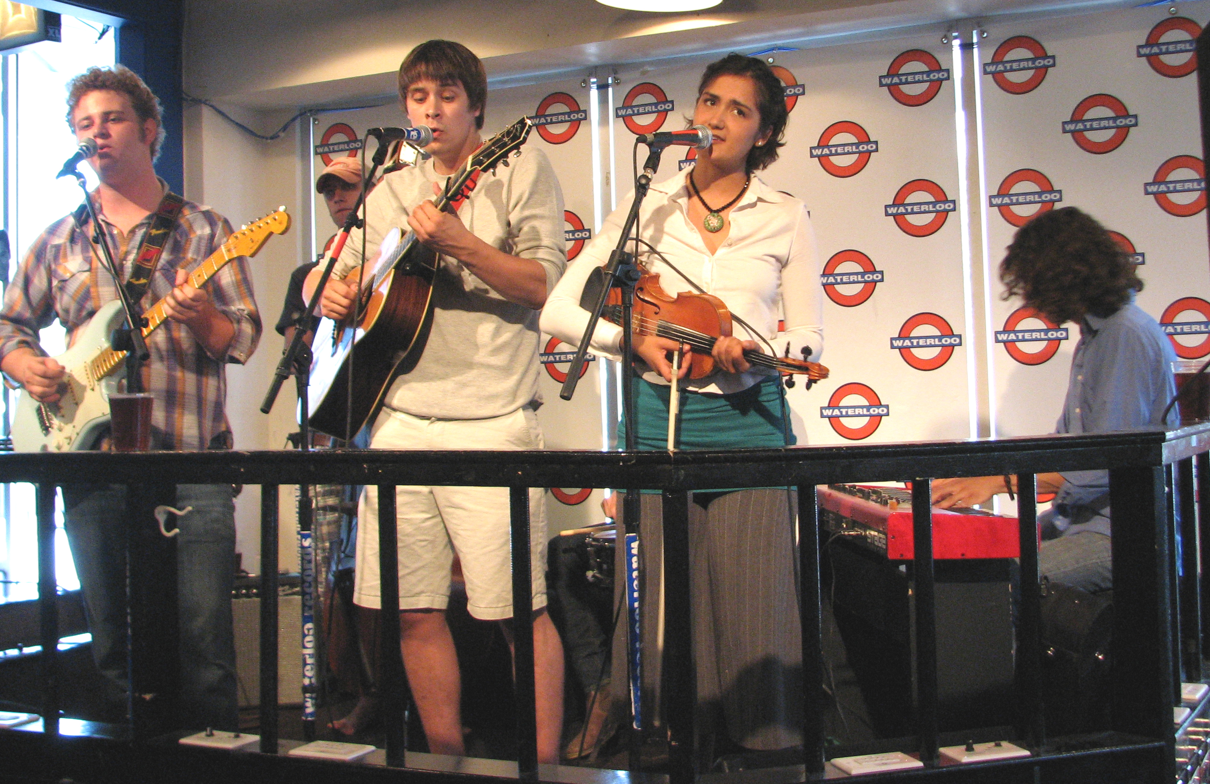 The Belleville Outfit play an in-store set in Waterloo Records, Austin, TX, May 27, 2009